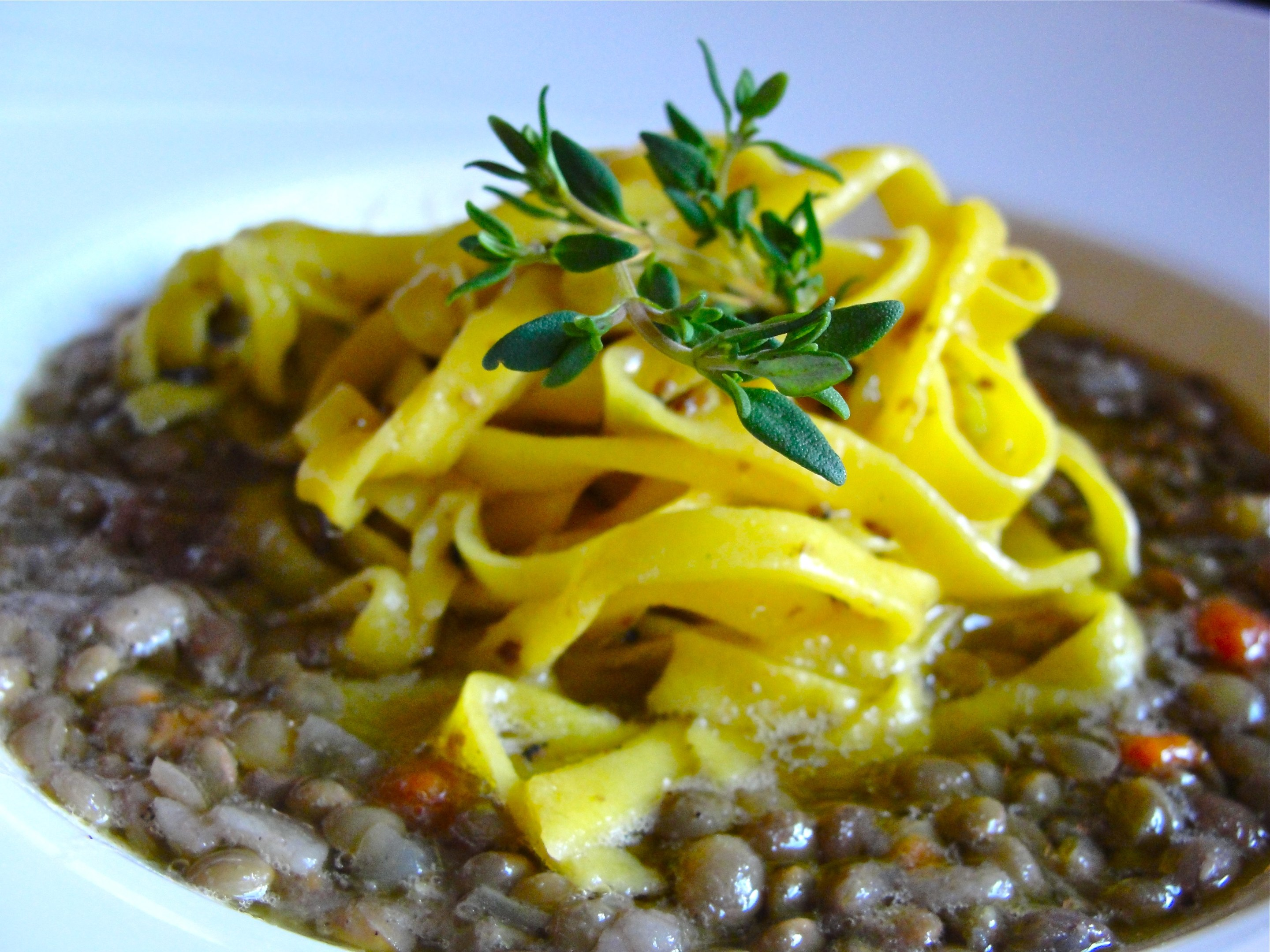 We love Sunday lunch. Here we were in a restaurant in Perugia medieval center, here to read our review